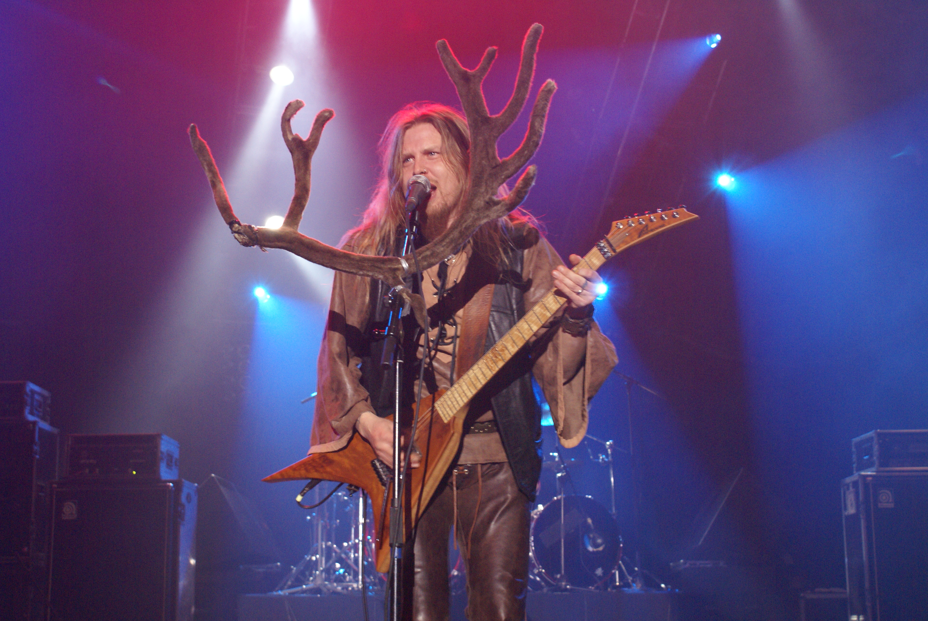 Jonne Järvelä from Korpiklaani during Metalmania 2007 festival